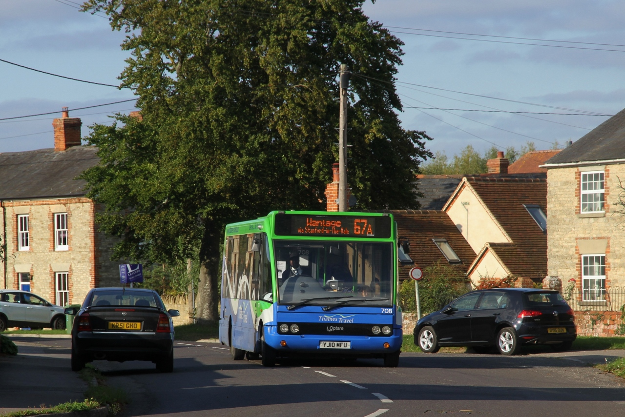 A Thames Travel bus on route 67A in Chapel Road, Stanford in the Vale, Oxfordshire. The bus is an Optare Solo, registration mark YJ10 MFU, fleet number 708.